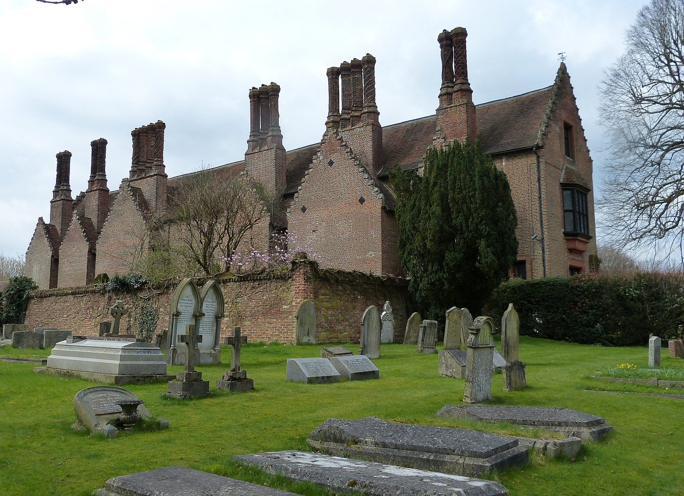 A view from a detached part of Chenies' St Michael's churchyard looking at the windowless southern façade of the South Range of Chenies Manor. Although windowless, this façade is far from being featureless with its five crow-stepped bays and huge array of Elizabethan brick chimneys.